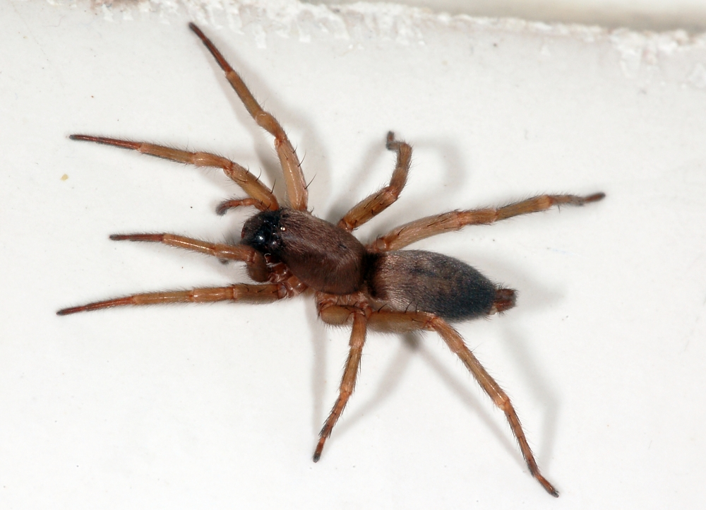 Clubiona cf. corticalis, Nied, Frankfurt/Main, Germany